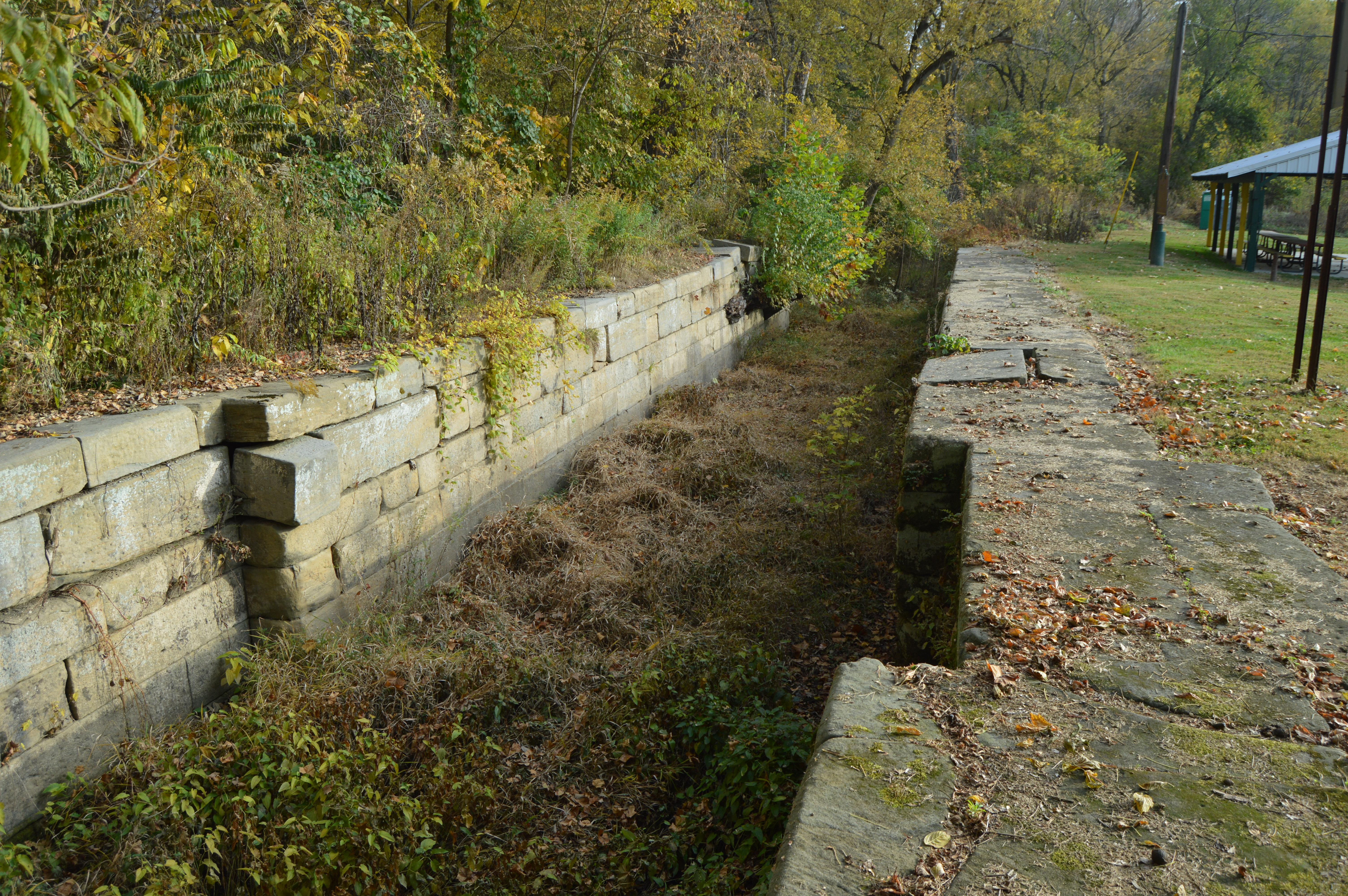 Interior of Ohio and Erie Canal Lock #30 (looking eastward), located in the Lock Meadows Park in Lockbourne, Ohio, United States.